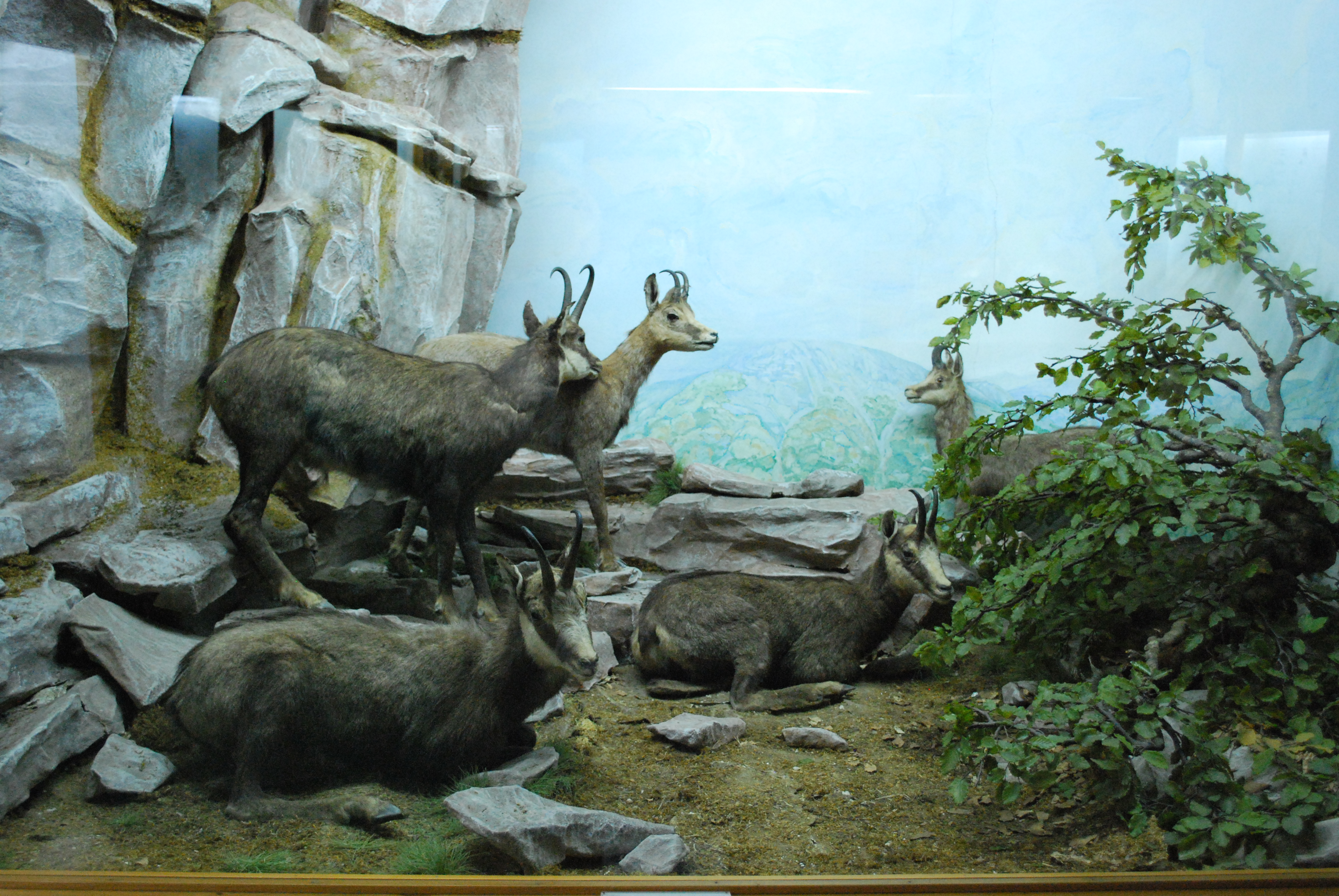 Macedonian Museum of Natural History in Skopje, Macedonia